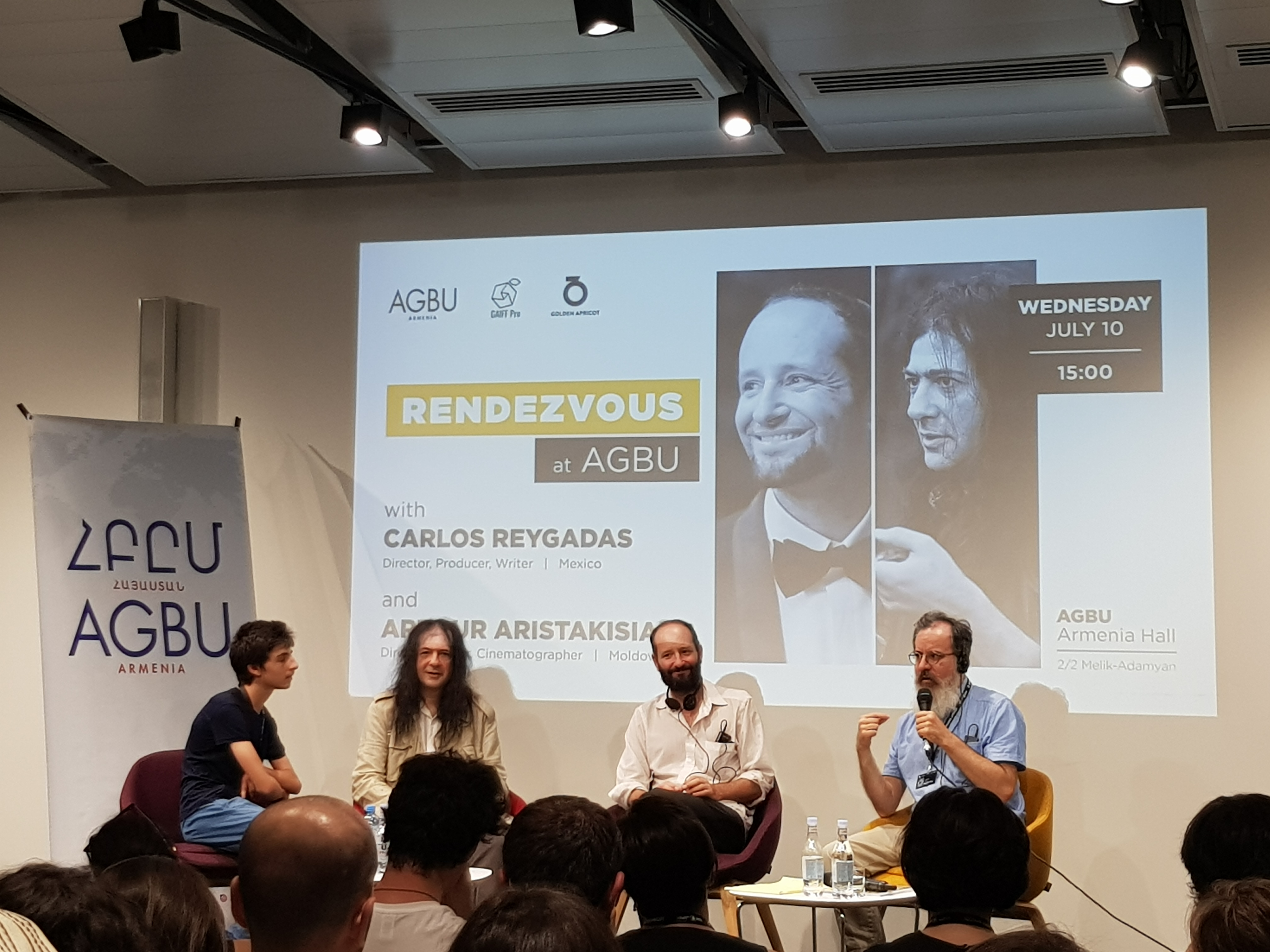 Rendezvous with Carlos Reygadas and Artour Aristakisian, Moderator: James Steffen (Film historian, USA)